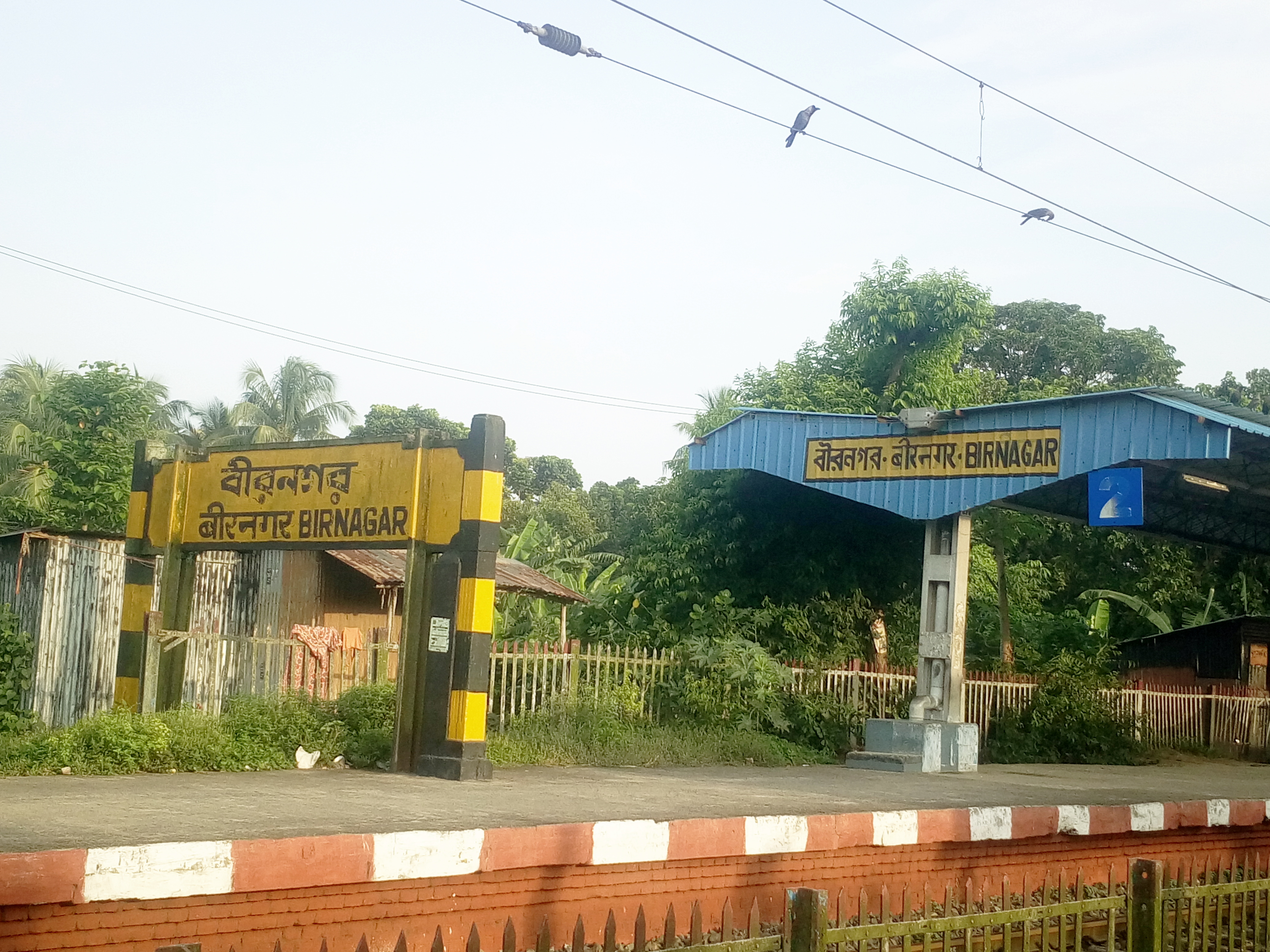 Birnagar railway station on Seladah-Lalgola line, nadia, West Bengal